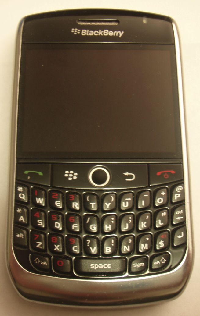 BlackBerry 8900